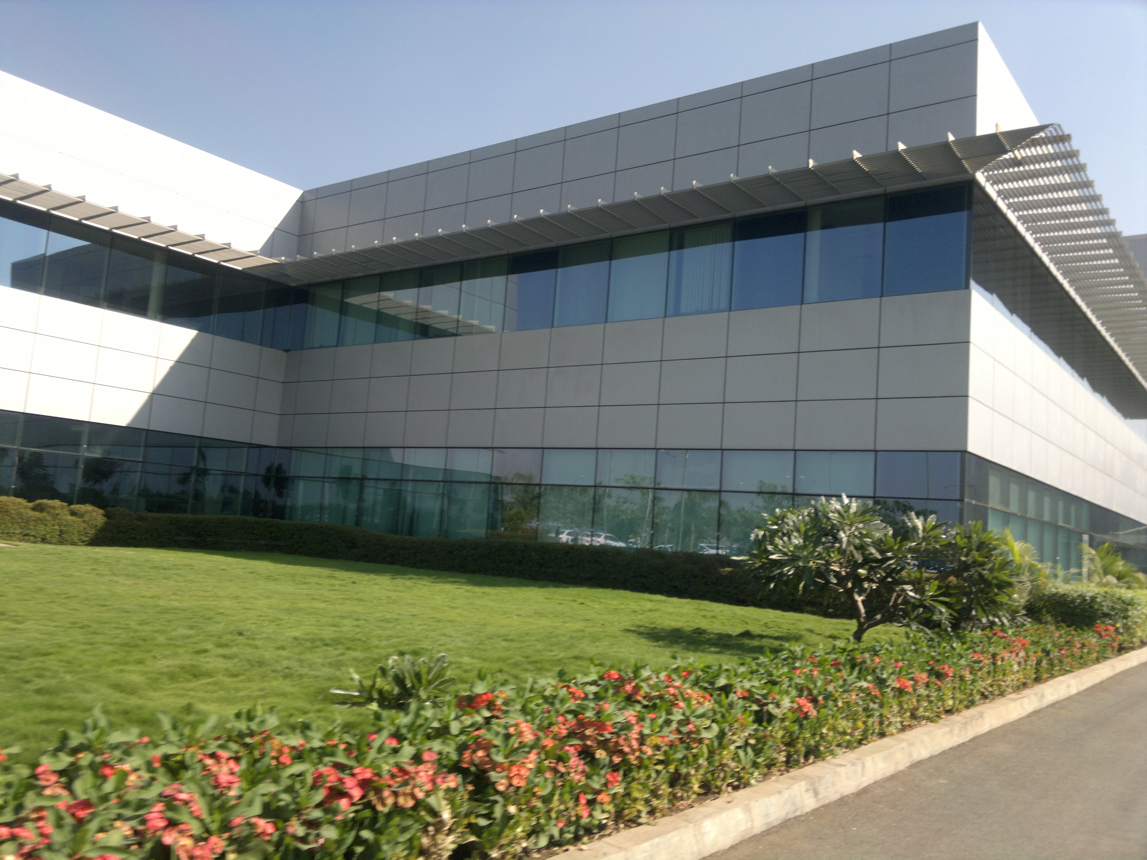 Volkswagen assembly plant in Pune